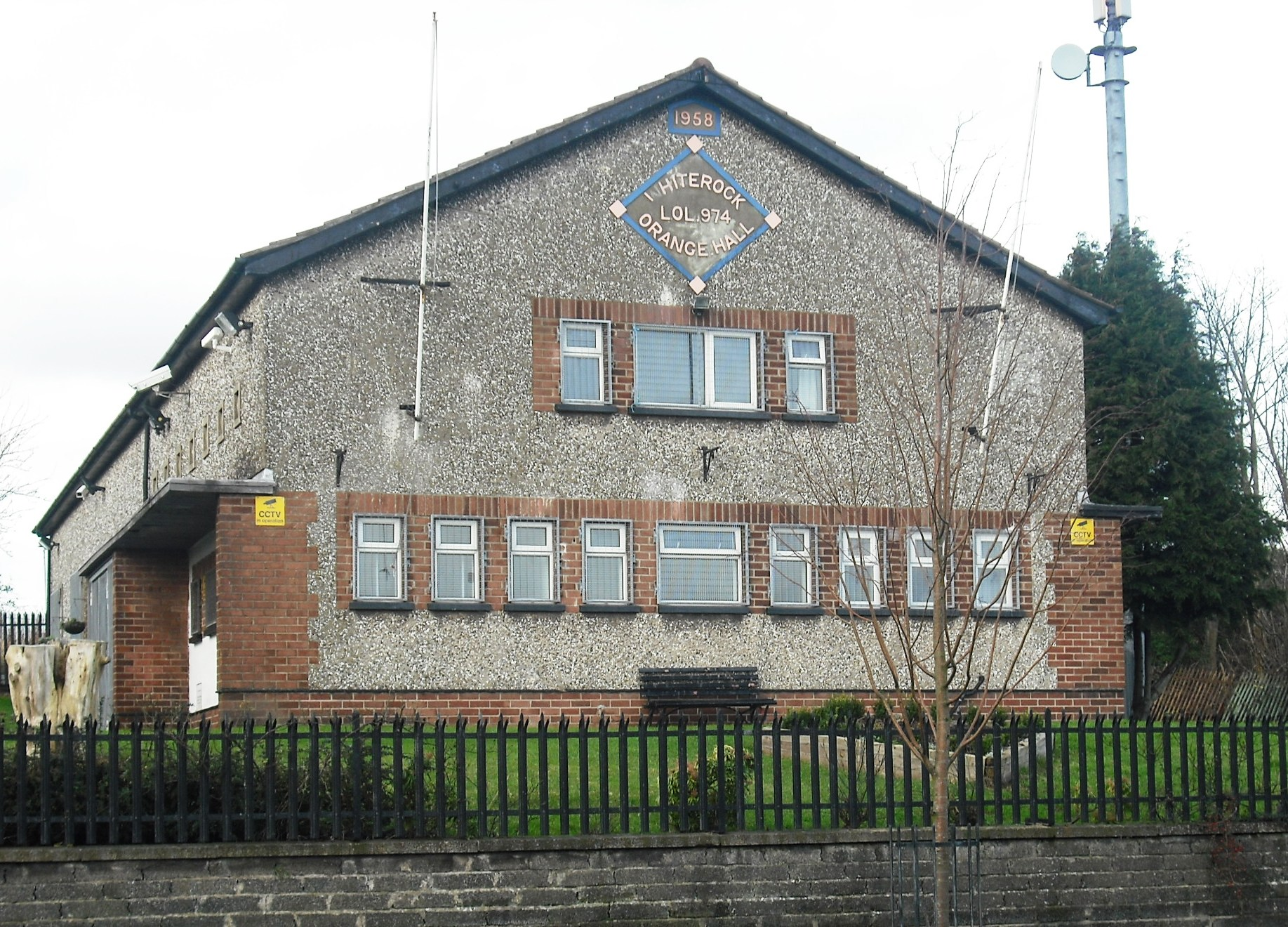 Whiterock Orange Hall on the Springfield Road near the Highfield estate, Belfast